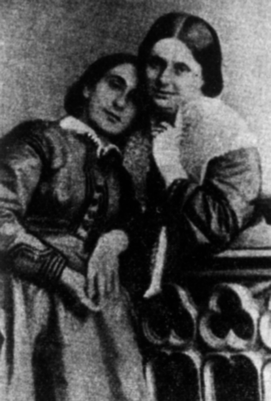 Photograph of Pia Brătianu (wife of Ion Brătianu; left) and Maria Rosetti (wife of C. A. Rosetti)